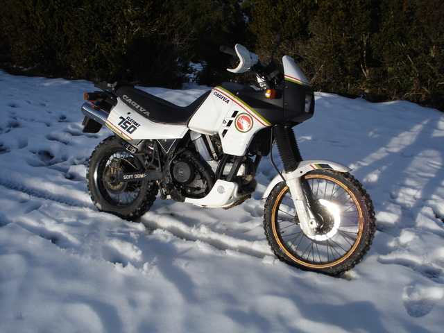 Cagiva 750 Elefant "Monofaro"